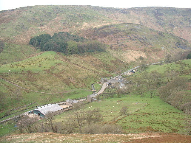 Sykes Farm Trough of Bowland. Taken from Sykes Nab. The farm was occupied by an ancestor of my mothers in the 1790's called William 'Wild Will' Whitaker a skinner who moved there from Skin House Grindleton. He farmed Sykes farm with his brother in law 'Darned Dick' Richard Place so called because of his darned clothes. It said at that time if you put a bucket in the beck for water there would be a salmon in it.